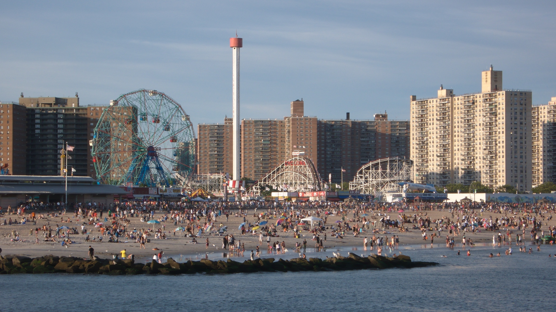 Coney Island beach, New York.